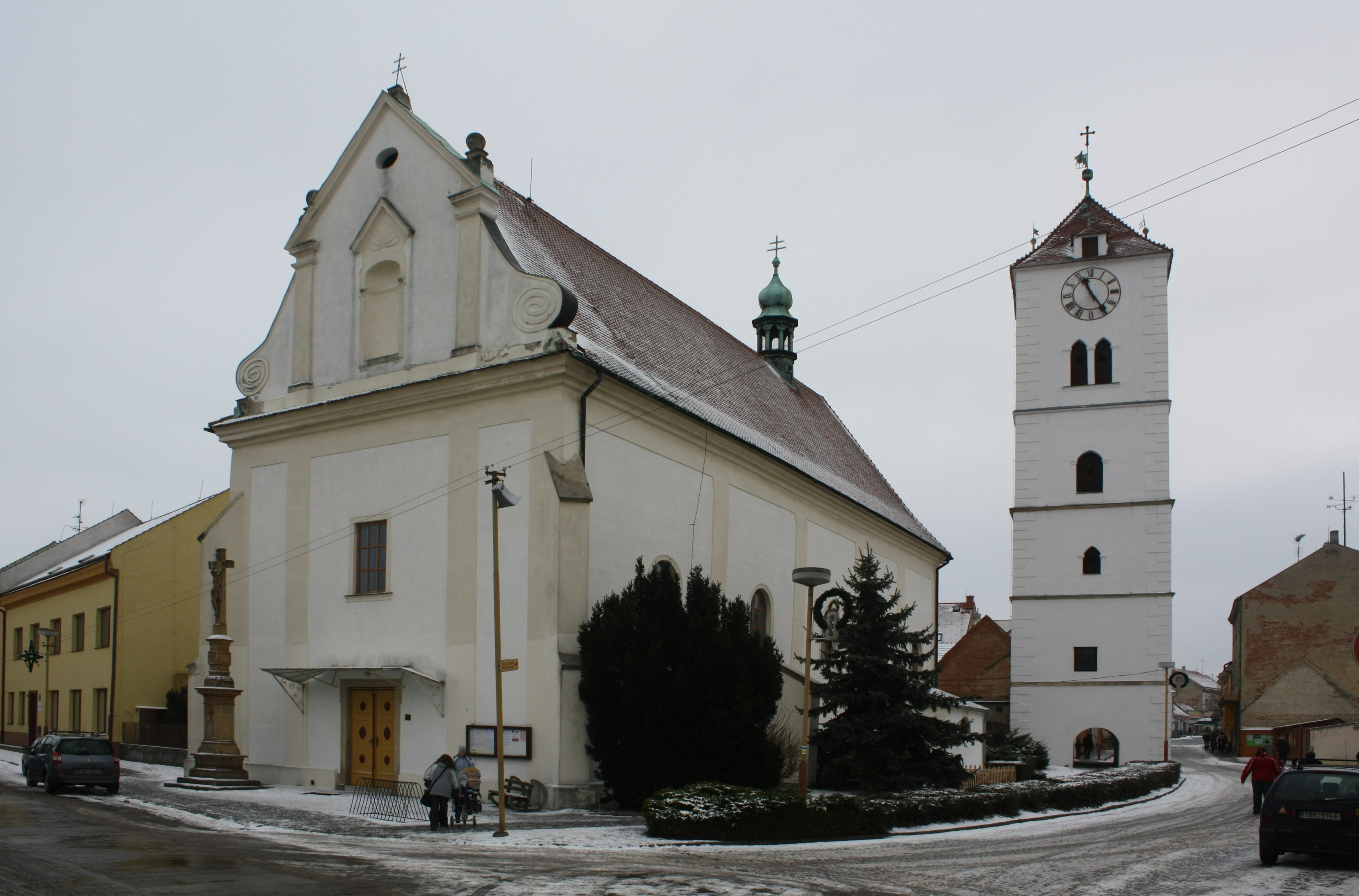 Strážnice, Hodonín district, Czech Republic - St. Martin Church